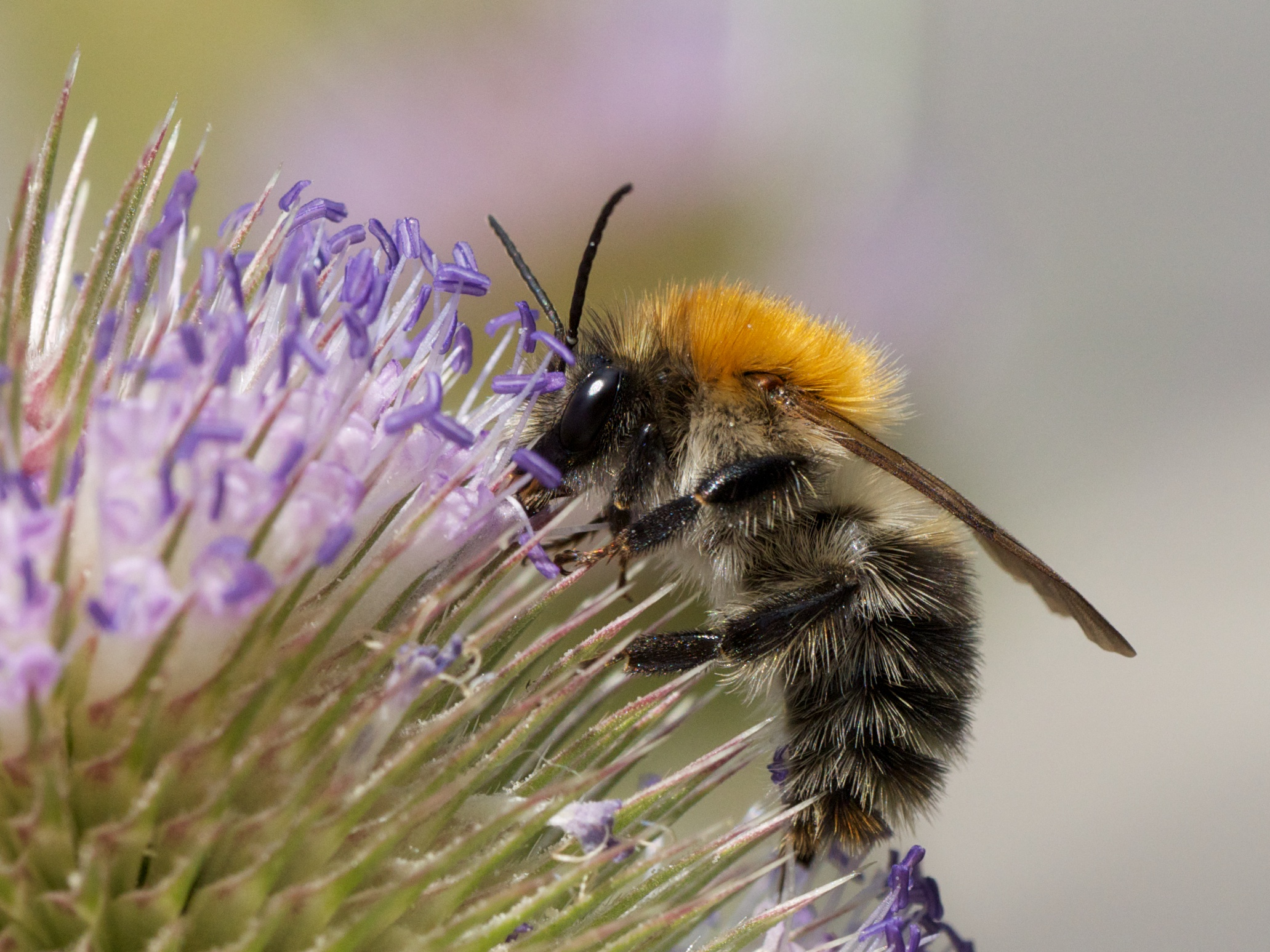 A common carder-bee (Bombus pascuorum) on a thistle flower